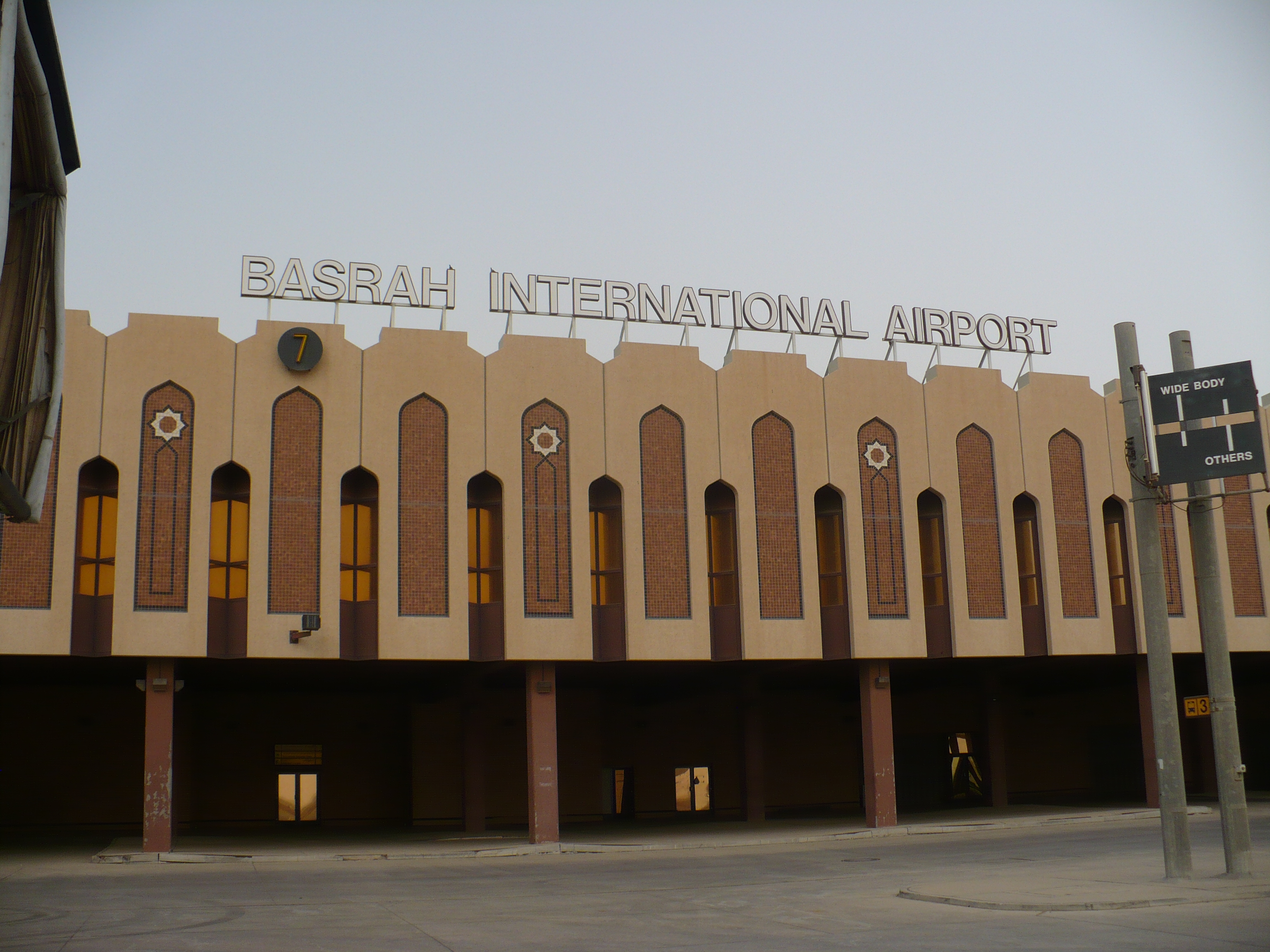 Basrah International Airport, Iraq